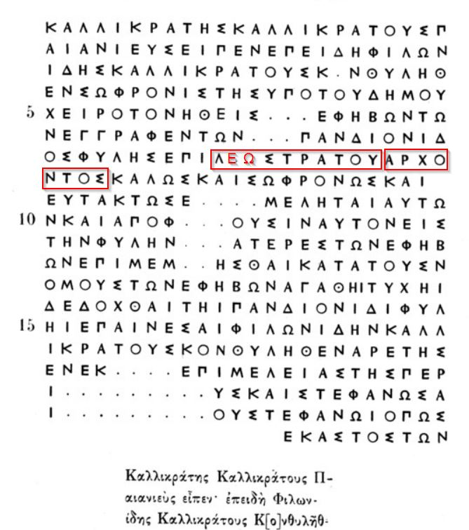 inscription where Leostratos (303 bC), archon of Athens is mentioned. In red: Addition of the missing letters and the text «Λεωστράτου άρχοντος» (in the year of... "Leostratos archon")